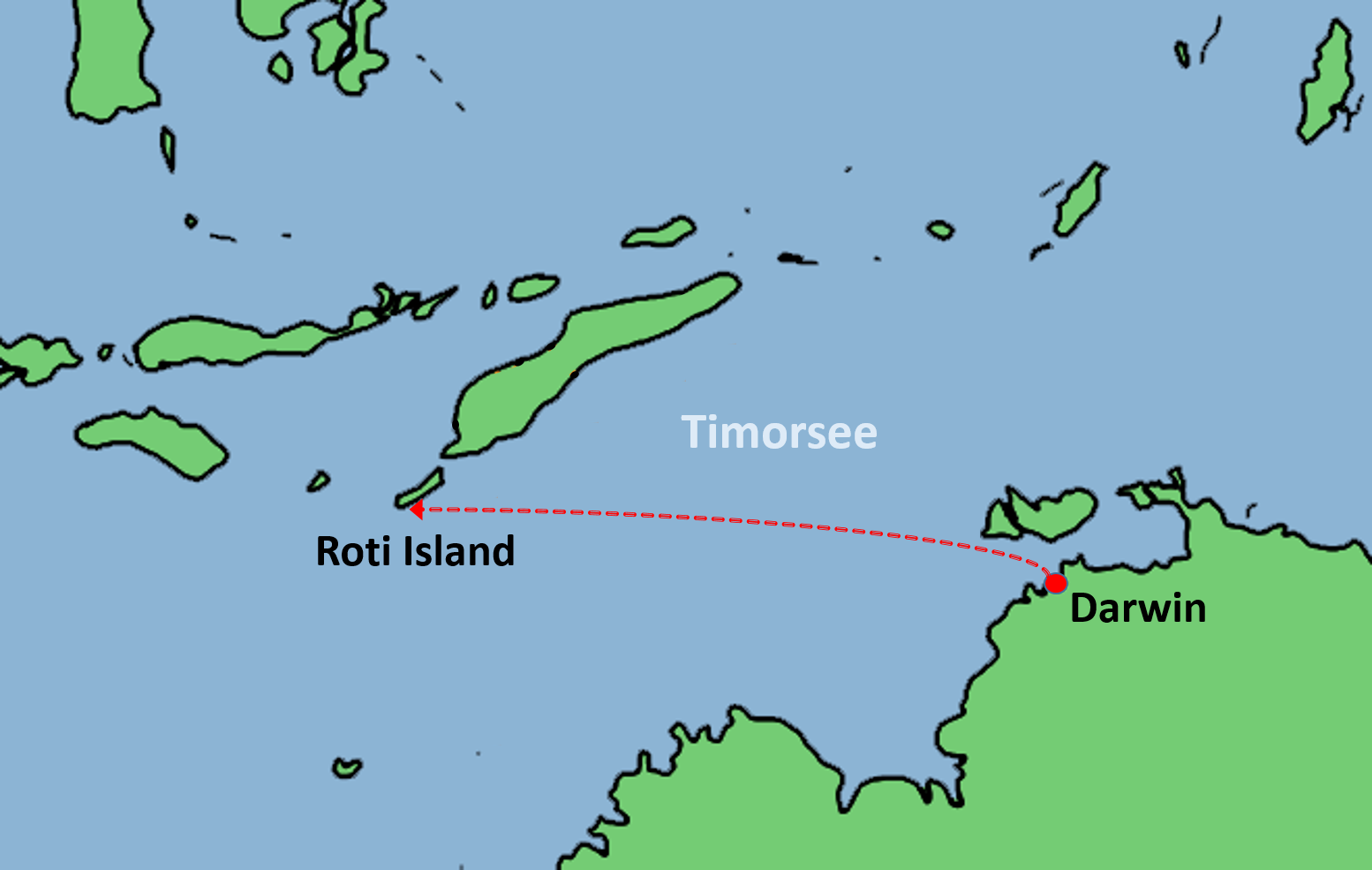 Approximate route of Ian Fairweather's voyage on his raft through Timor Sea, 1952